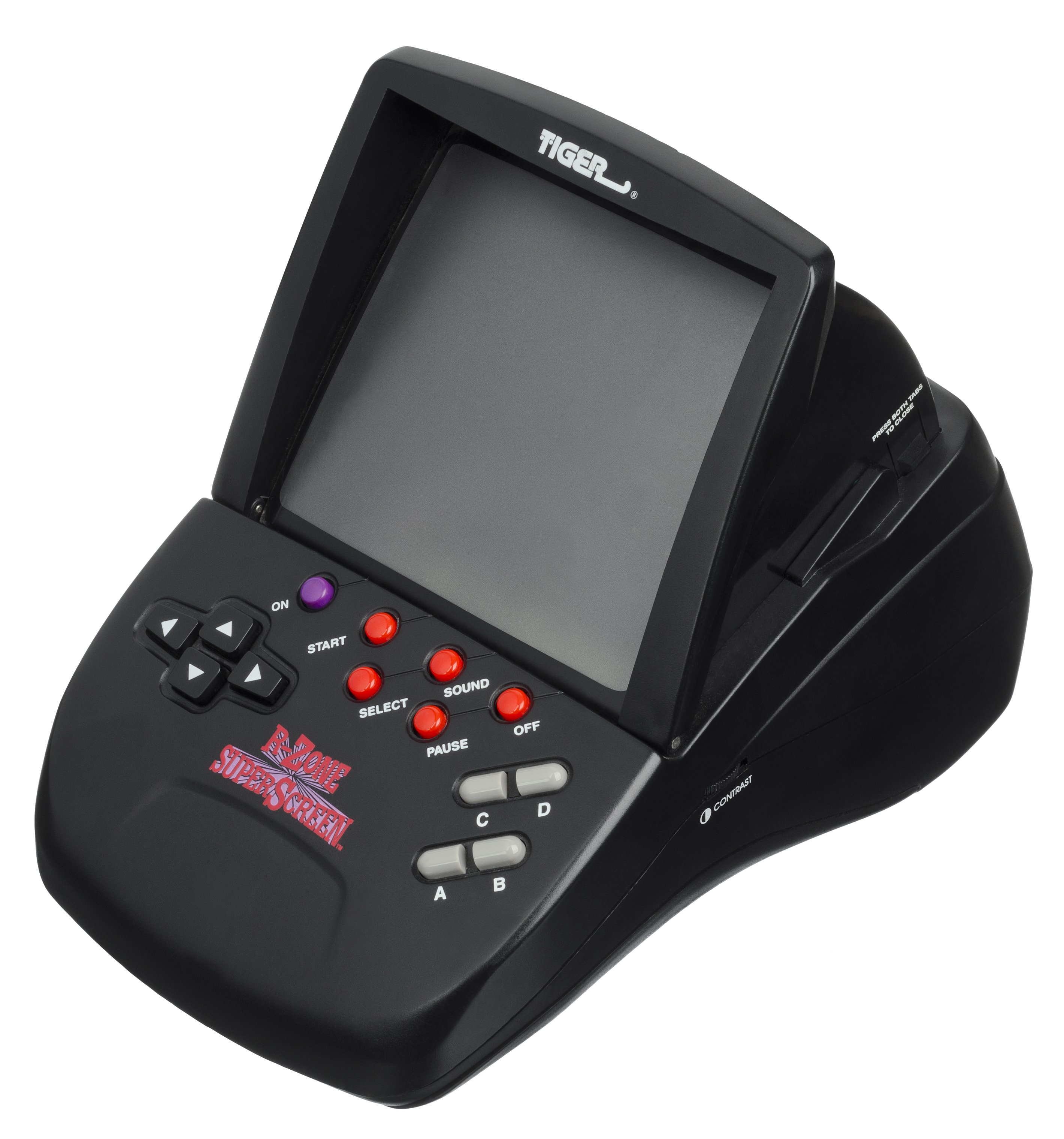 The Tiger R-Zone SuperScreen with the screen popped out. The R-Zone SuperScreen is a portable game console released in 1995. The system was not much different than Tiger's line of dedicated handheld LCD games, and uses swappable LCD screen cartridges.